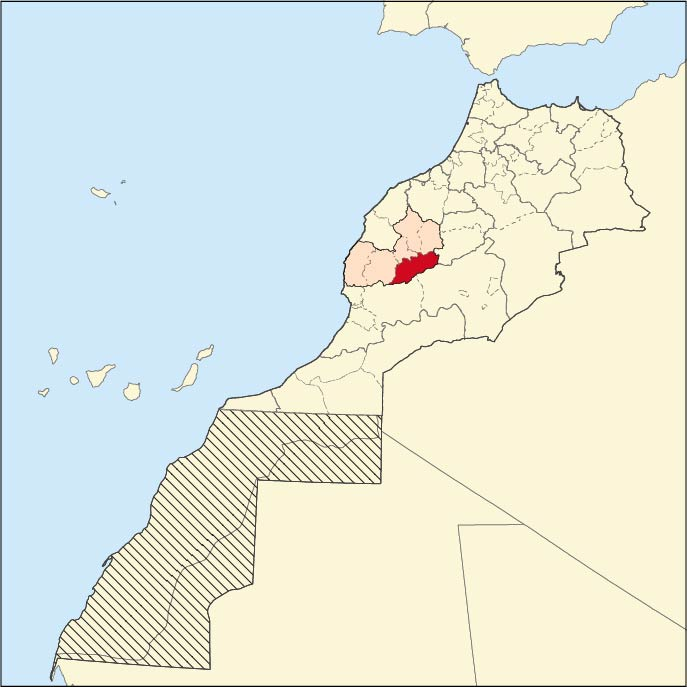 Province of Al Haouz